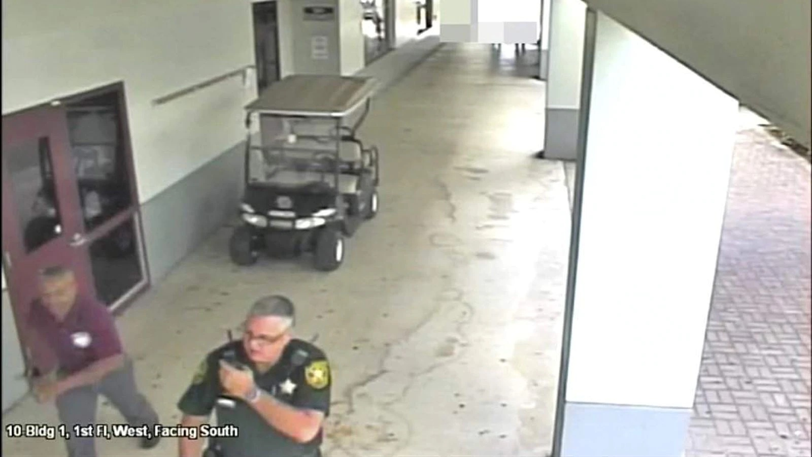 Broward County Sheriff’s deputy Scot Peterson outside as gunman murders students inside Marjory Stoneman Douglas High School